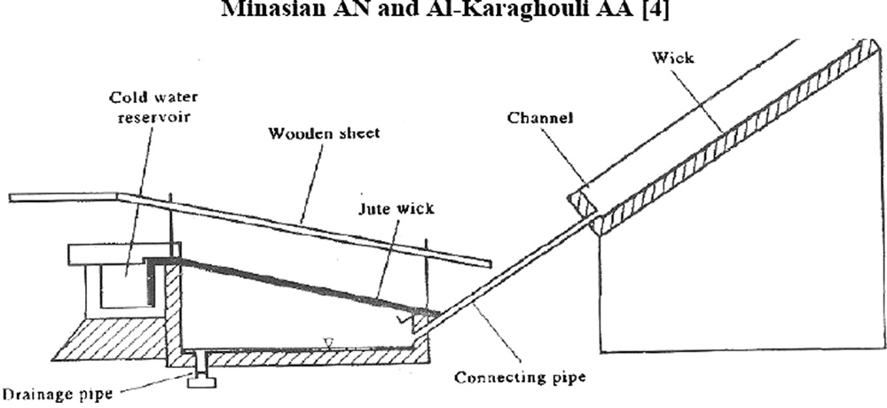 This file shows how a wick basin solar still work. The original image is available from the article in the source.